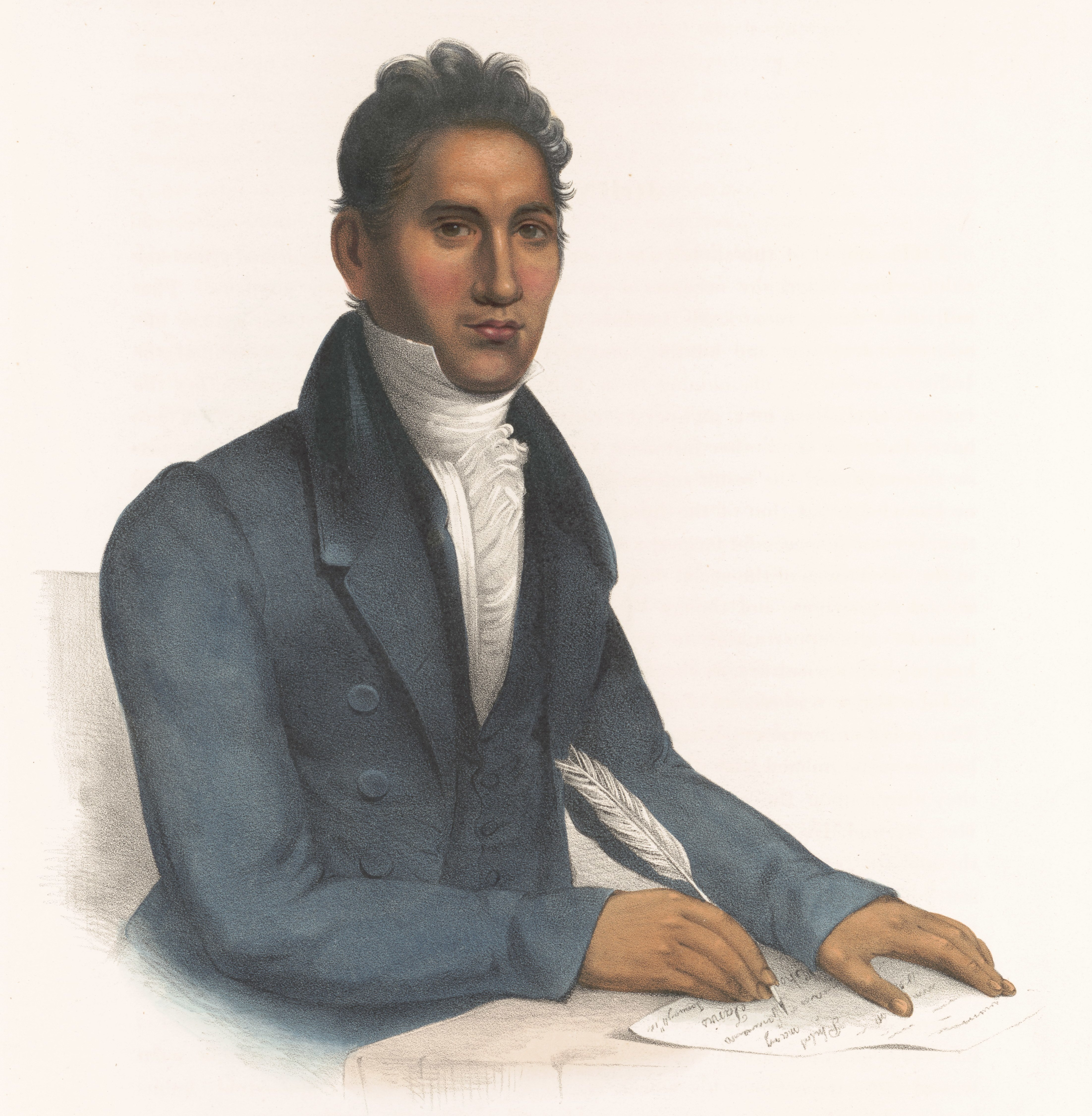 John Ridge (c. 1802 – June 22, 1839) by J. T. Bowen, lithographer after Henry Inman